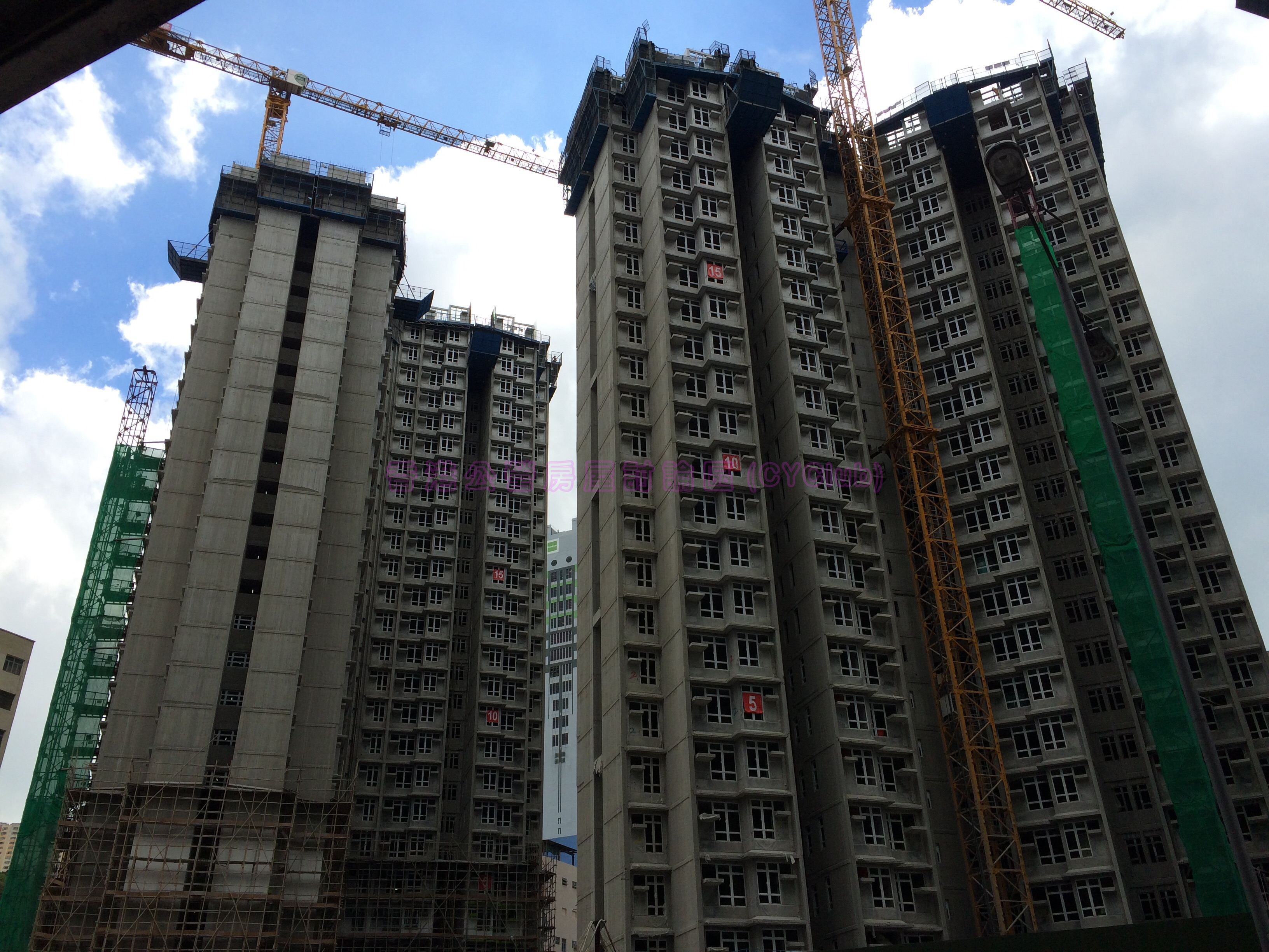 This is my own photo.